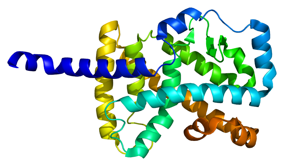 Structure of the RORA protein. Based on PyMOL rendering of PDB 1n83.